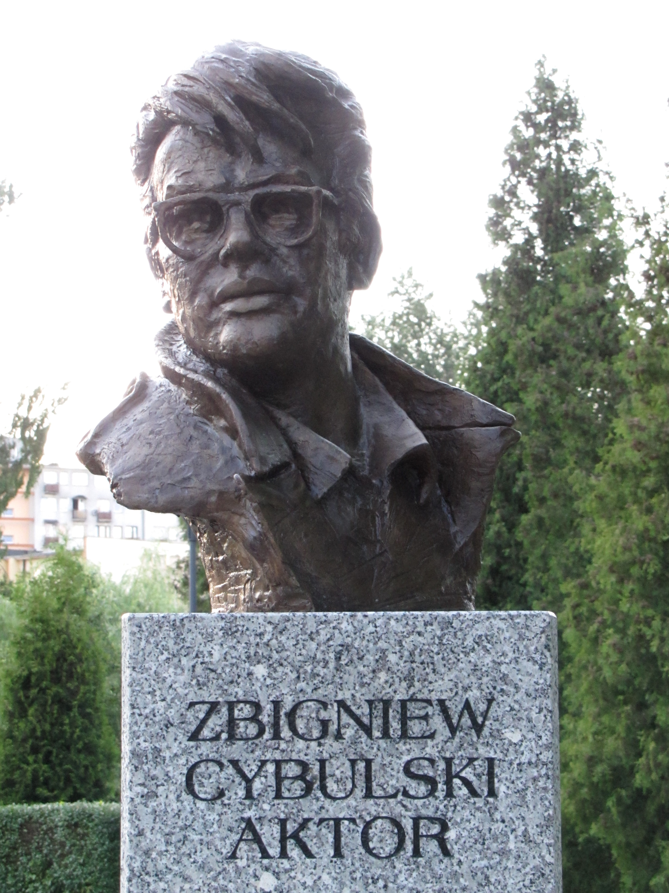 Bust of Zbigniew Cybulski in Celebrity Alley in Kielce (Poland)